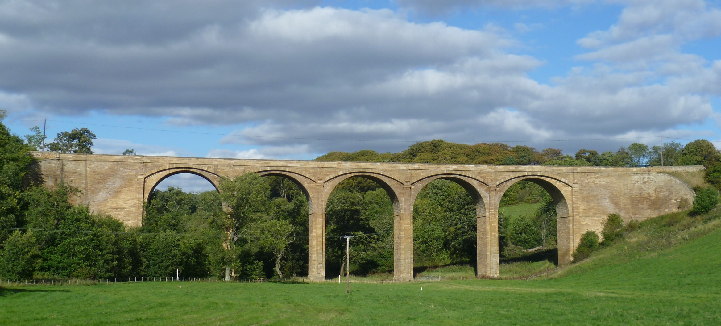 Lothian Bridge near Pathhead, Midlothian